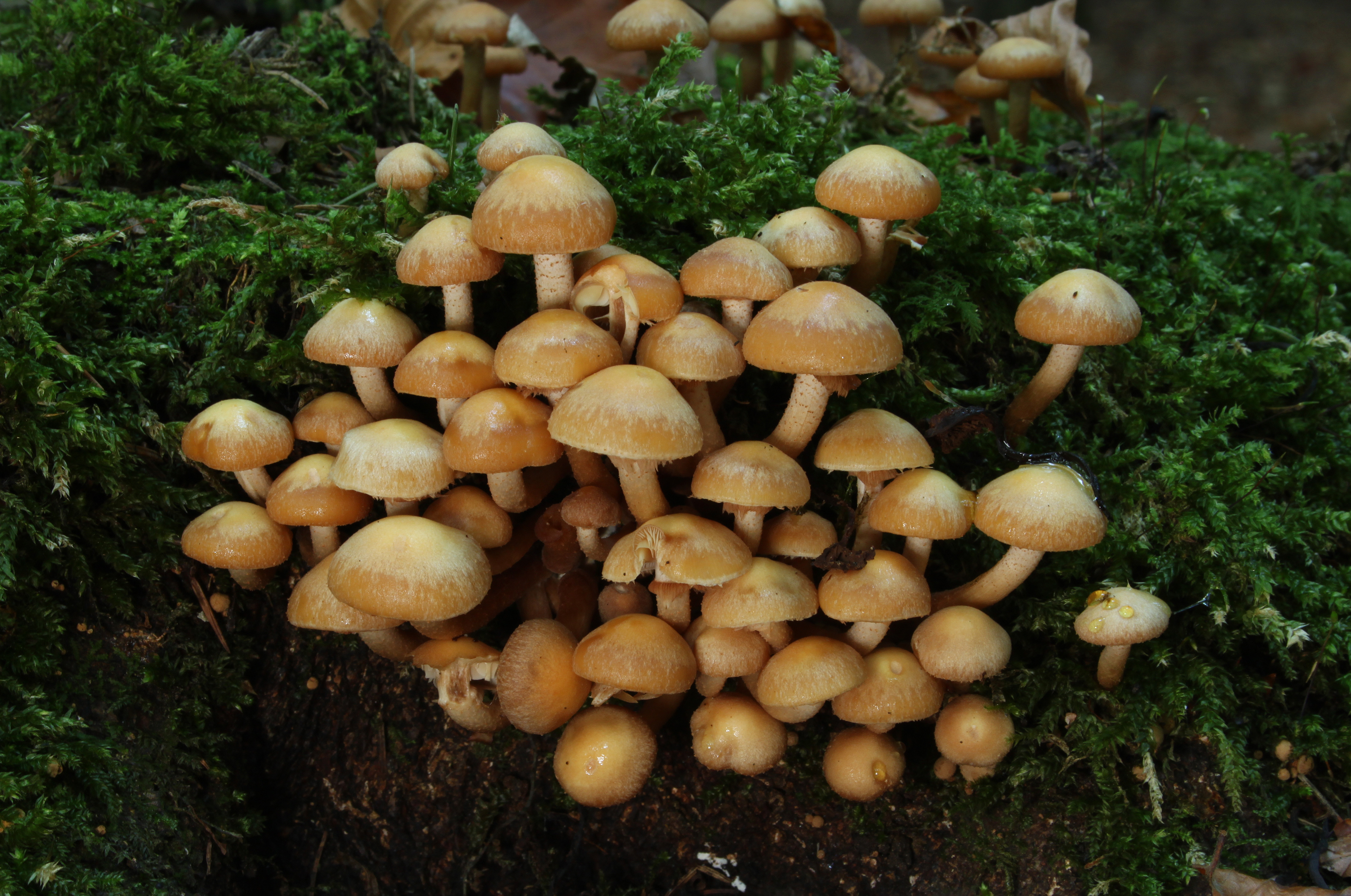 Sheathed Woodtuft, Kuehneromyces mutabilis, Family: Strophariaceae, Location: Germany, Biberach an der Riss. Obligate synonym(s): Pholiota mutabilis (Schaeff.) P. Kumm. 1871, Dryophila mutabilis (Schaeff.) Quél. 1886, Galerina mutabilis (Schaeff.) P.D. Orton 1960